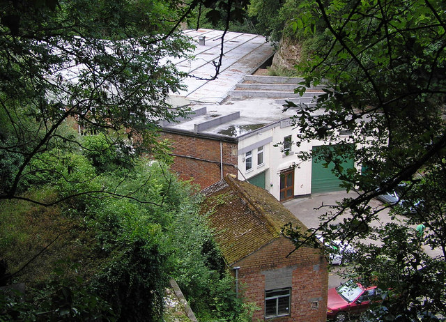 The Shadow Factory from above. This is another picture of the old Lancaster bomber factory, hidden in a quarry see 1405928